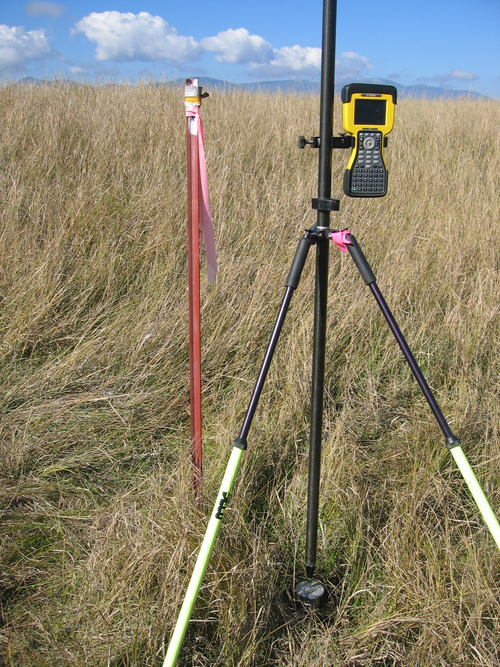 Land Survey Photo by Robert Femling/BLM Oregon